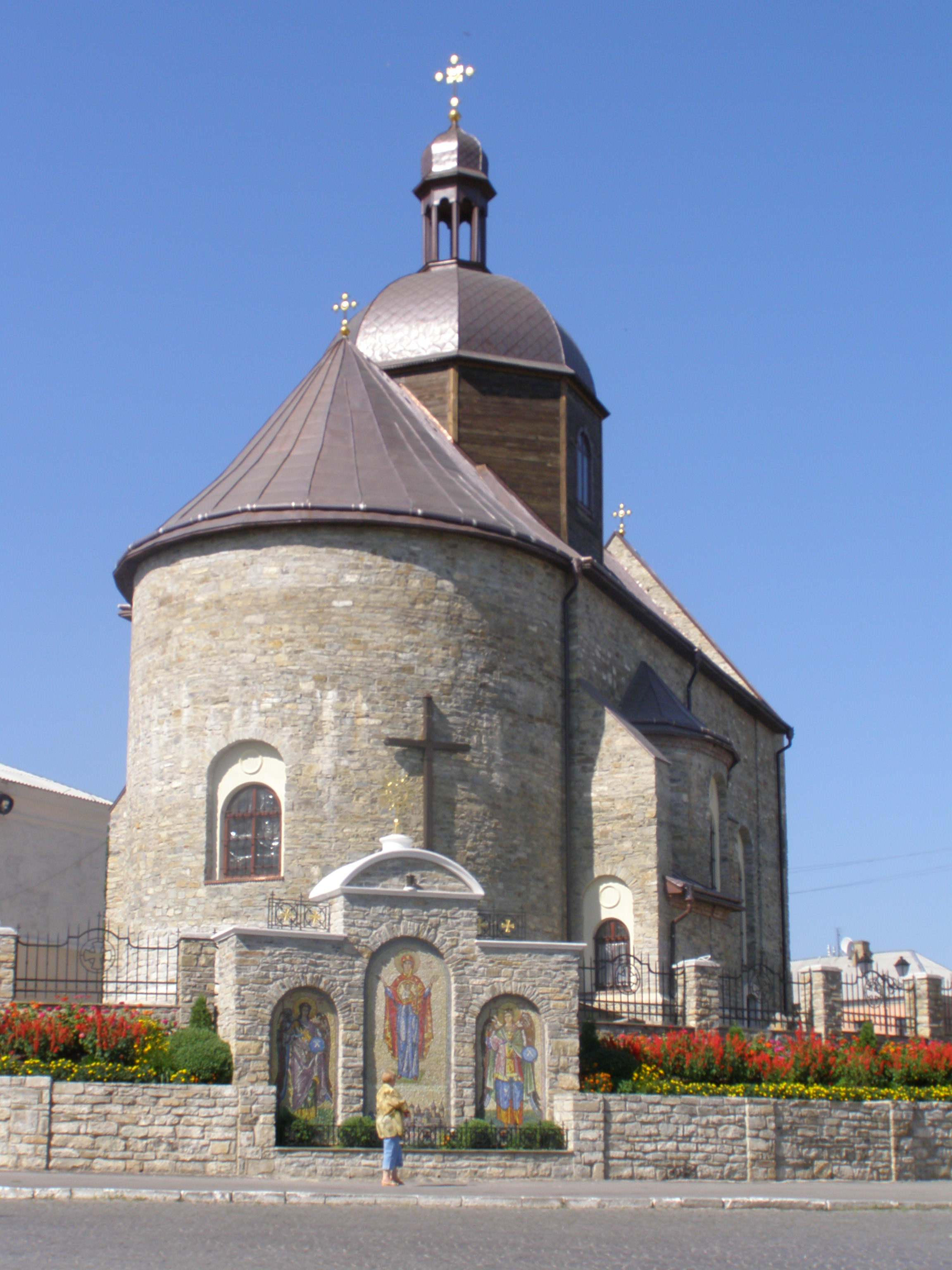 Kamianets-Podilskyi, Holy Trinity Church